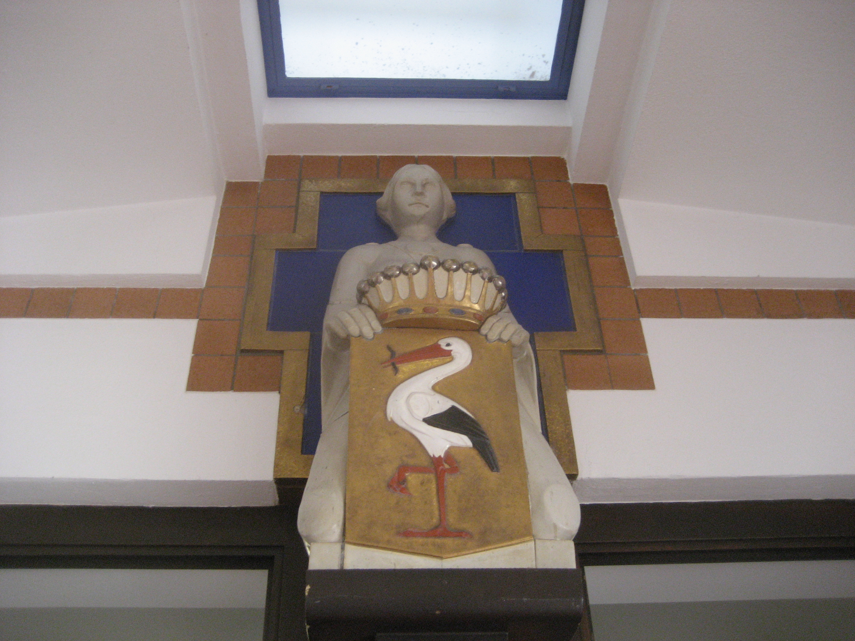 Part of the hall, in the interior, of the Kunstmuseum Den Haag in The Hague (NL). Above the entrance doors: a stork (symbol of city of The Hague) and the town maiden ("stedenmaagd"), by J.C. Altorf